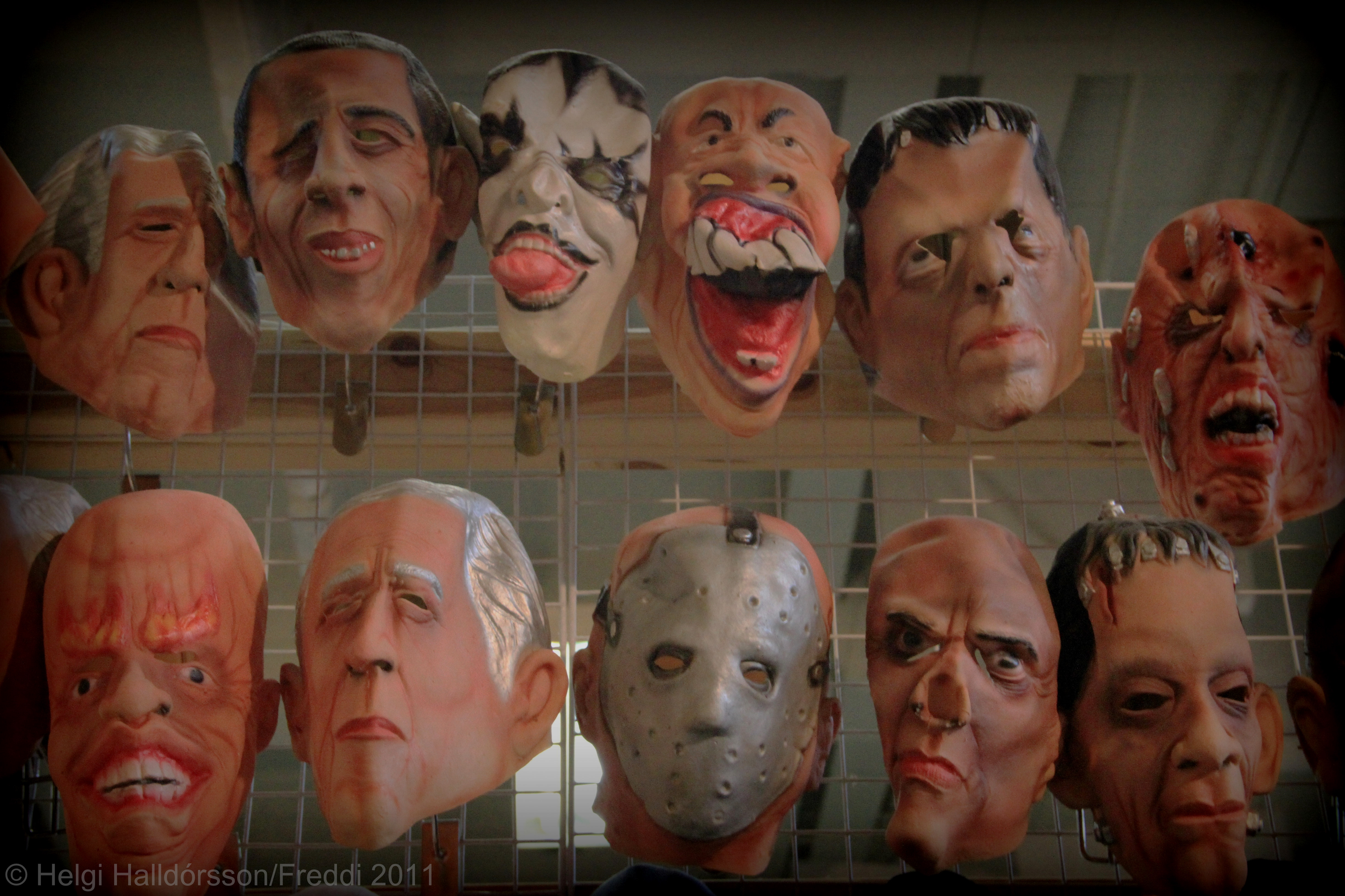 Found those Halloween/Horror masks at the The Kolaportid flea market in Reykjavik's Old Harbour. The only place to go at weekends to hunt out unusual finds from stalls selling vintage clothing and bric-a-brac. You can also buy yourself a decent lunch at the fish stalls.